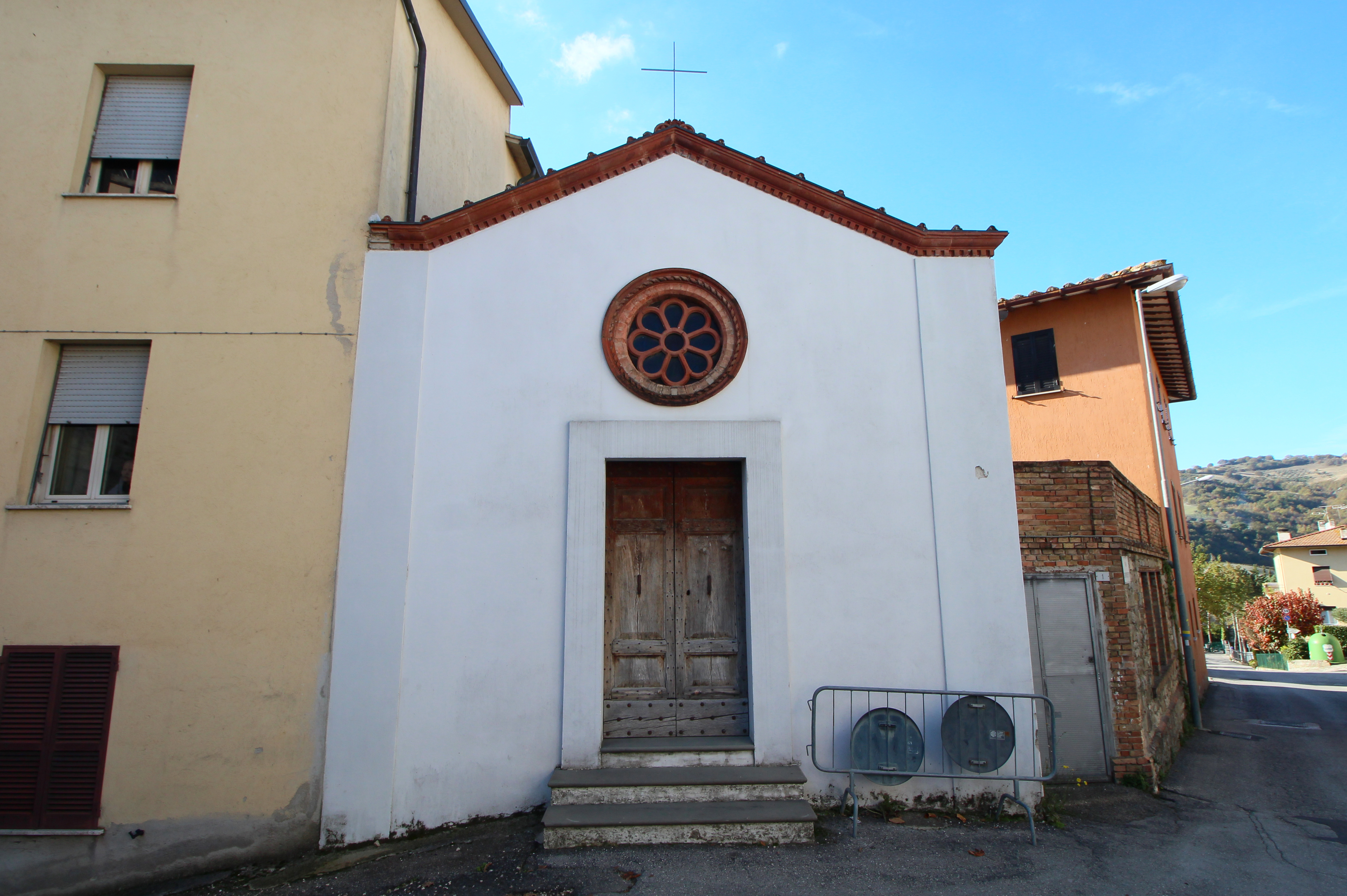 church Madonna della Foce (also Madonna della Neve), Valfabbrica, Province of Perugia, Umbria, Italy